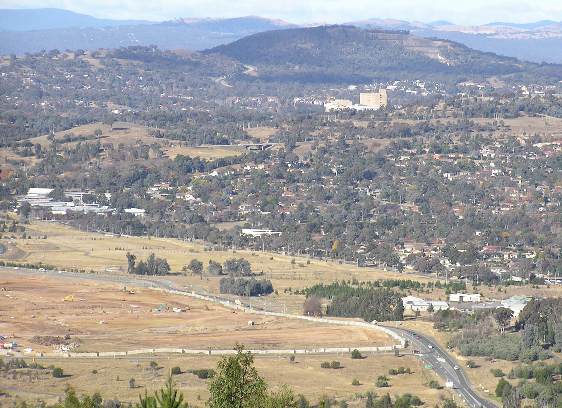 View of Wright, Australian Capital Territory from Mount Stromlo. Wright is the dirt patch at front. The Mount Stromlo Forestry Settlement is on the front right. Cotter road heads at an angle from the lower right. The background includes Weston Creek, Holder, Duffey the Canberra Hospital, Garran, O'Malley, and Hindmarsh Drive over Mount Mugga Mugga